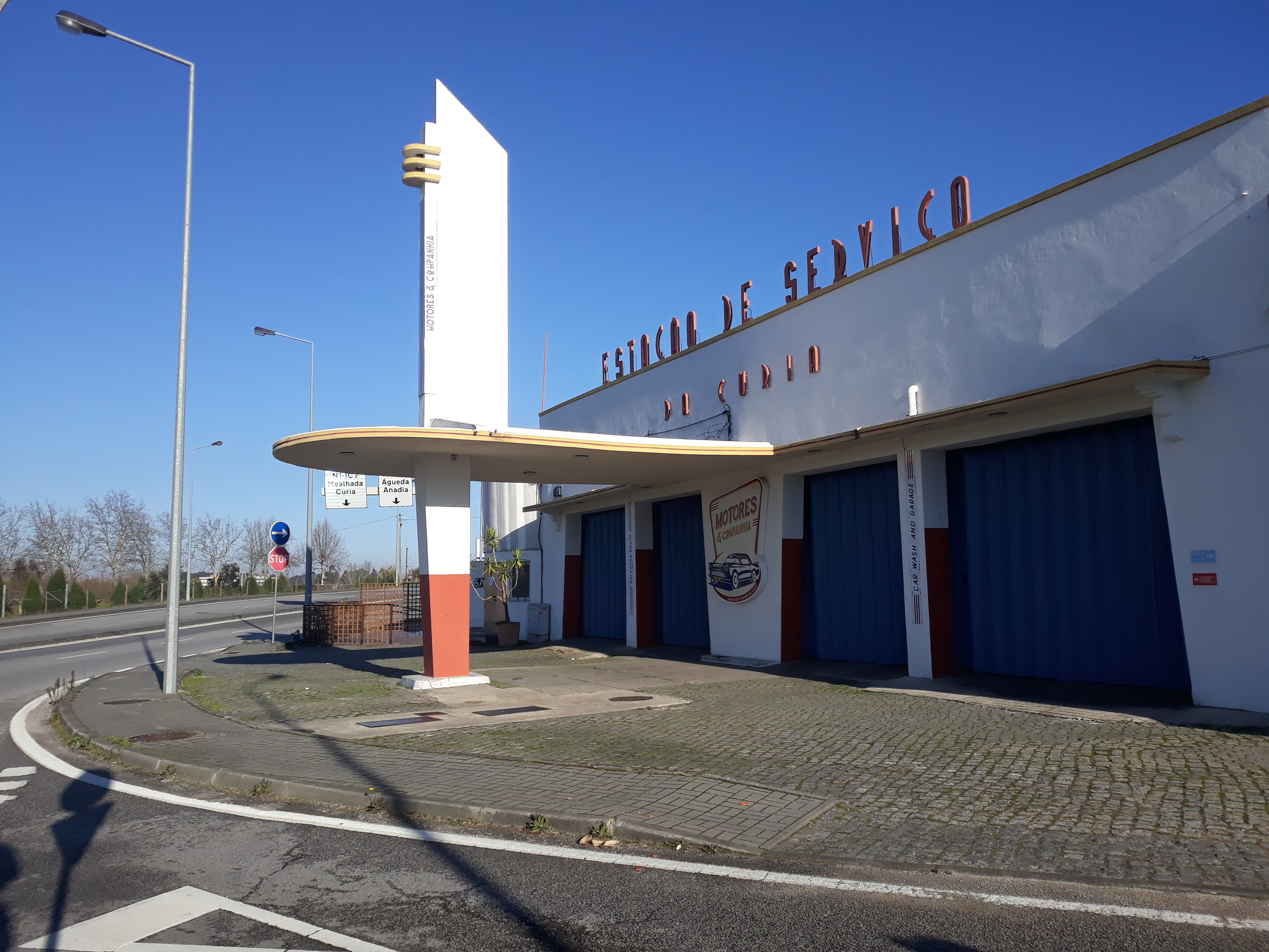 Curia service station, E.N. 1 - Portugal